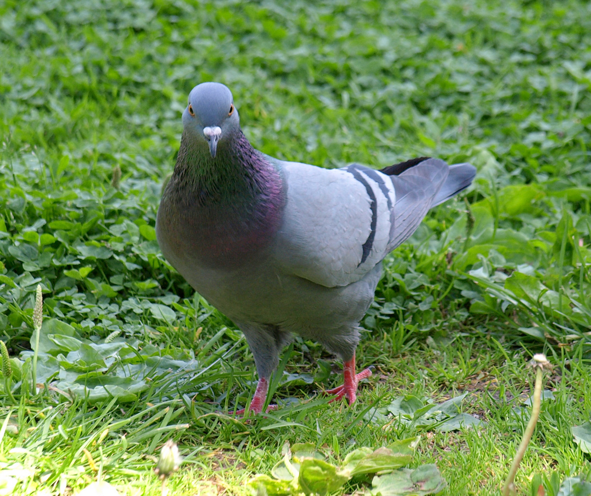 Domesticated Columba livia